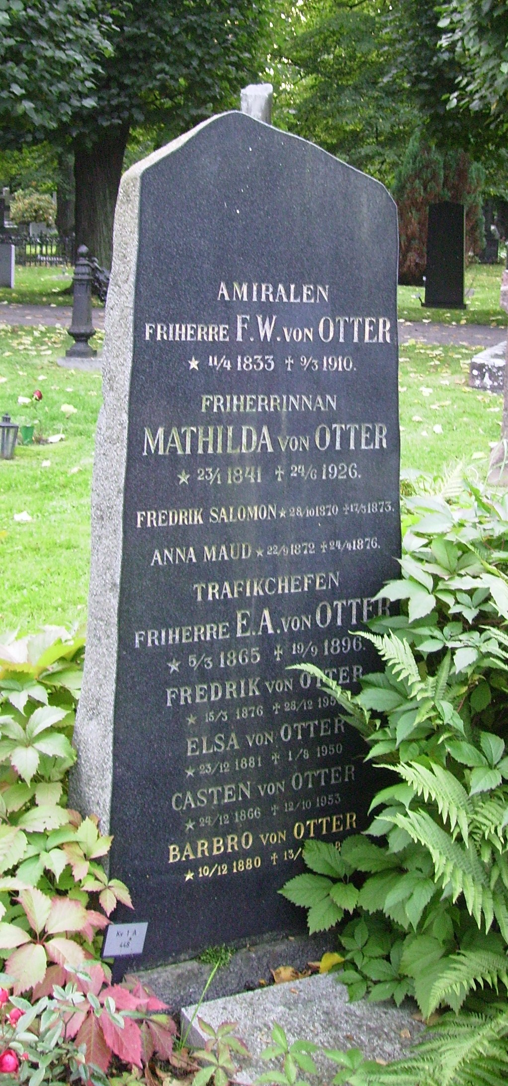 Picture of Fredrik von Otter's grave at Norra begravningsplatsen in Solna